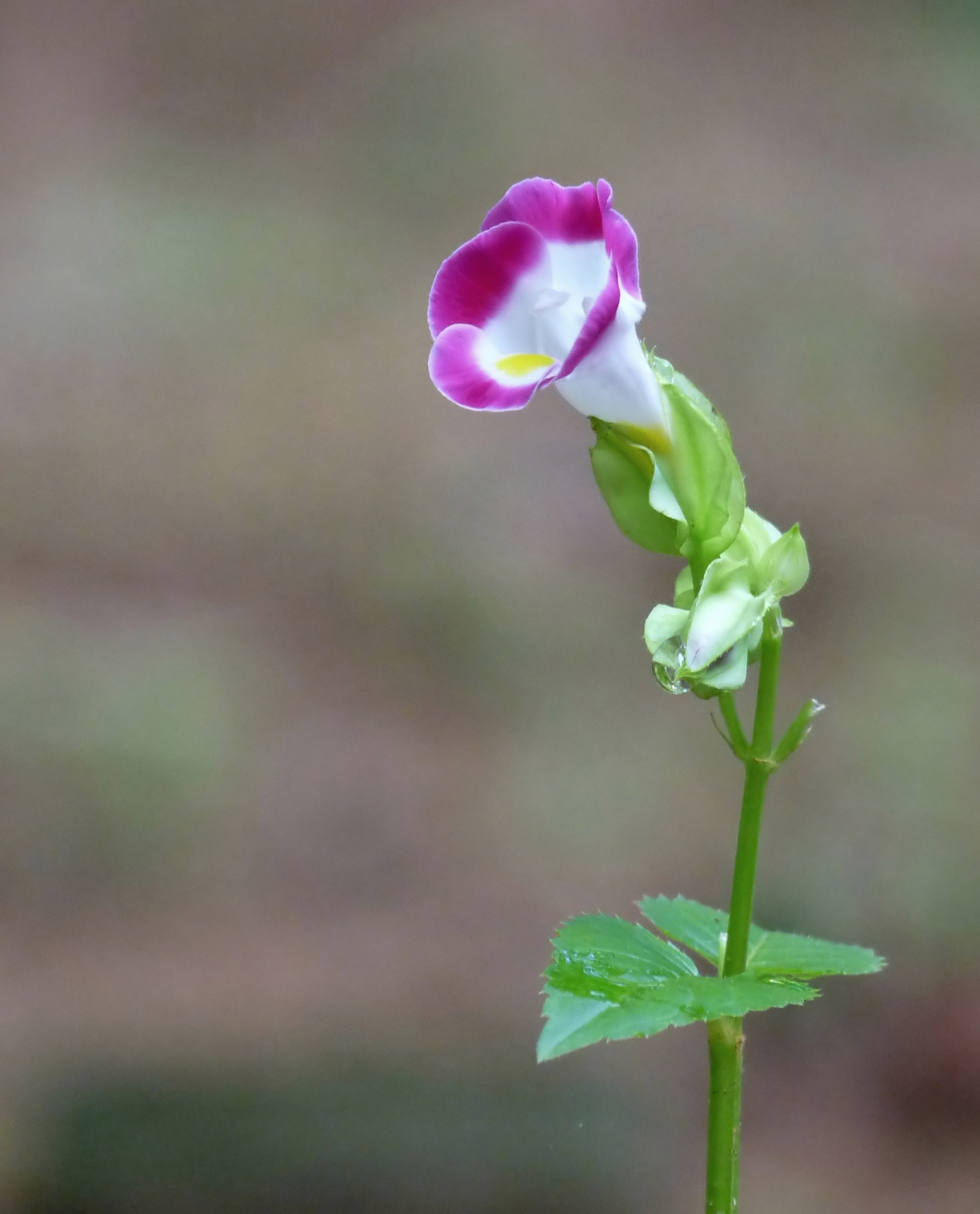 Torenia fournieri, Wishbone flower, Torenia, is a perennial plant in the Linderniaceae, with blue or pink (Torenia fournieri 'Catalina Pink') flowers that have yellow markings. It is typically grown as a landscape annual, reaching 12-15 in. tall. It has simple opposite or sub-opposite leaves with serrated edges. The pink or pale violet flowers have deep purple blotches on the lower petals with yellow inside. The cool colors are a welcome relief during the heat of summer. Flowers bloom throughout the summer and autumn.